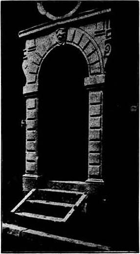 Early 17th century gate, Hartogstraat, The Hague.